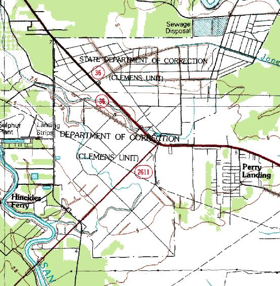 A topographic map of the Clemens Unit in Texas